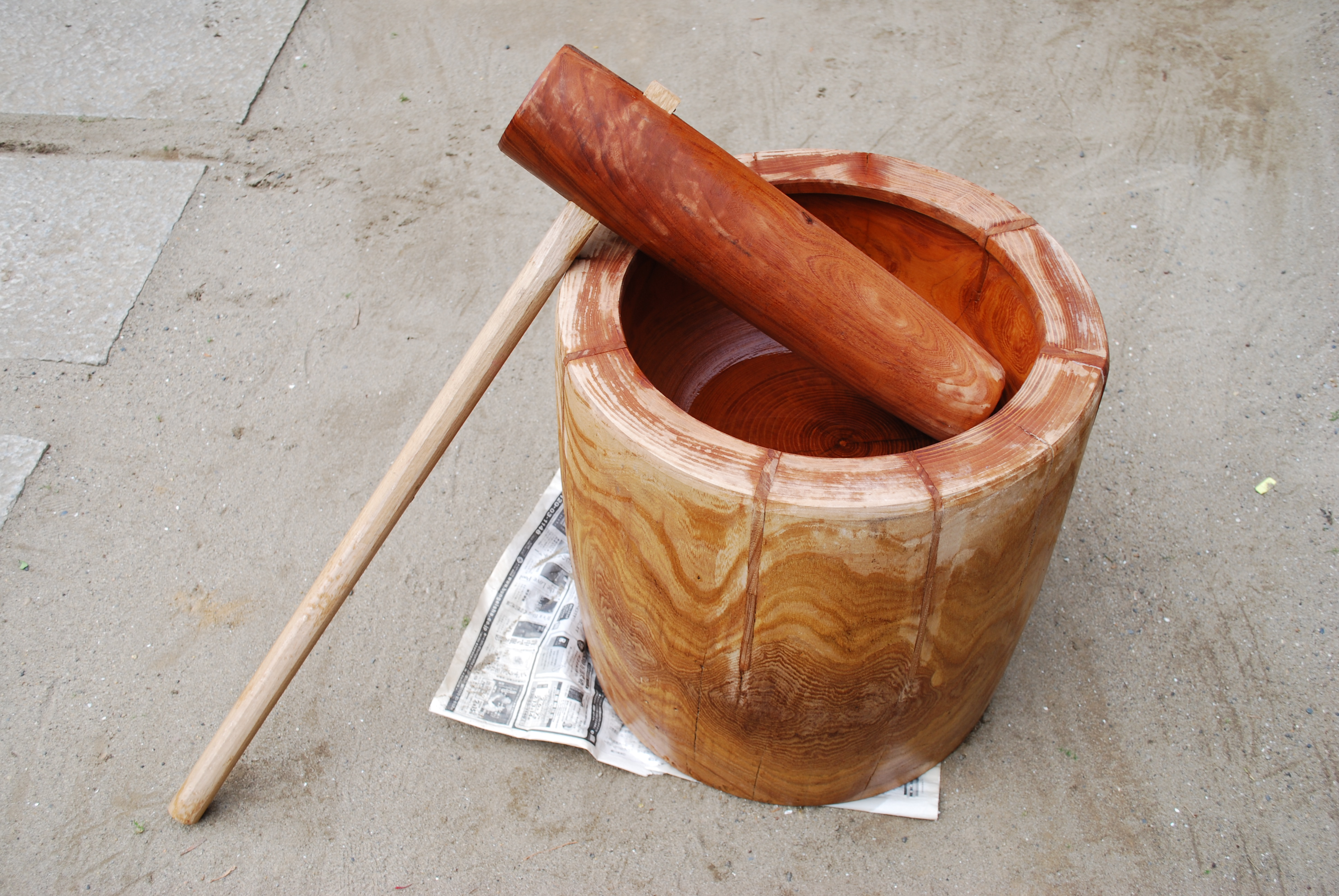 Mortar and a mallet to make a rice cake,made it from a zelkova,Katori-city,Japan